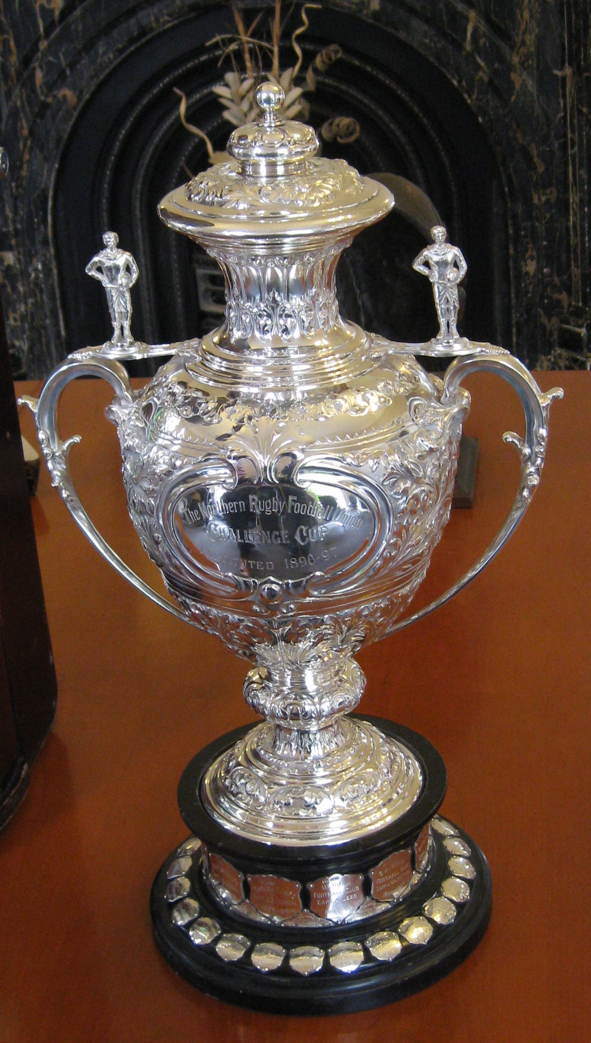 Northern Rugby Football Union Challenge Cup. (Founder of Rugby League) 1896 UK sporting trophy